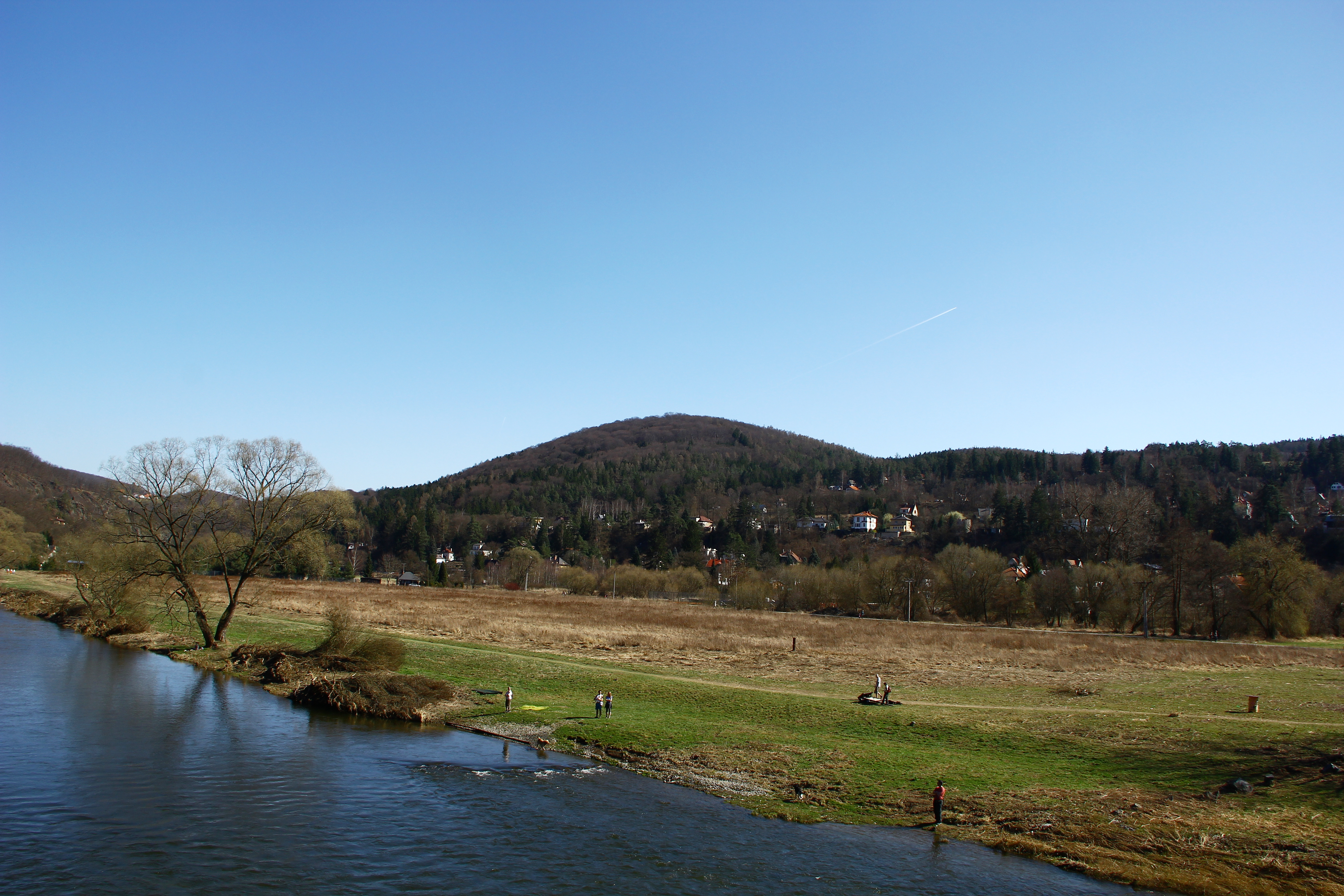 Medník Hill, Prague-West district